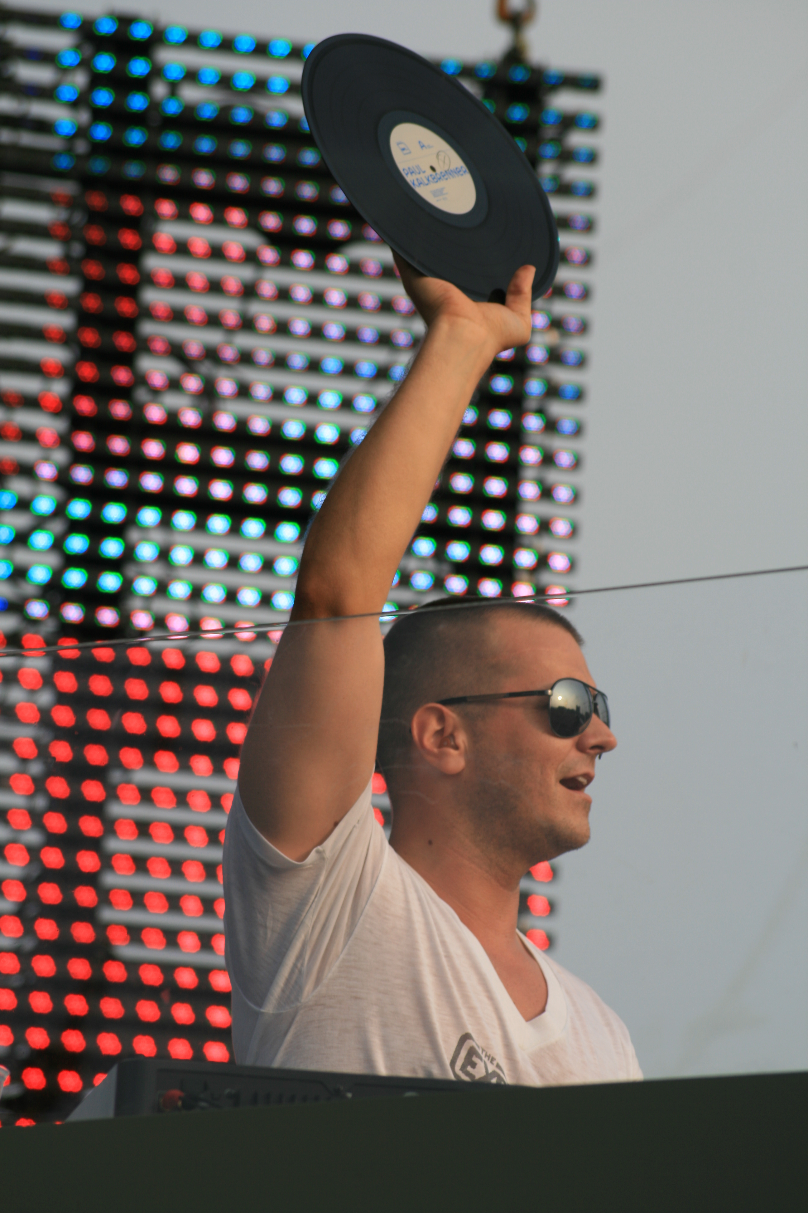 Loveparade 2007, DJ Moguai, Essen/Germany